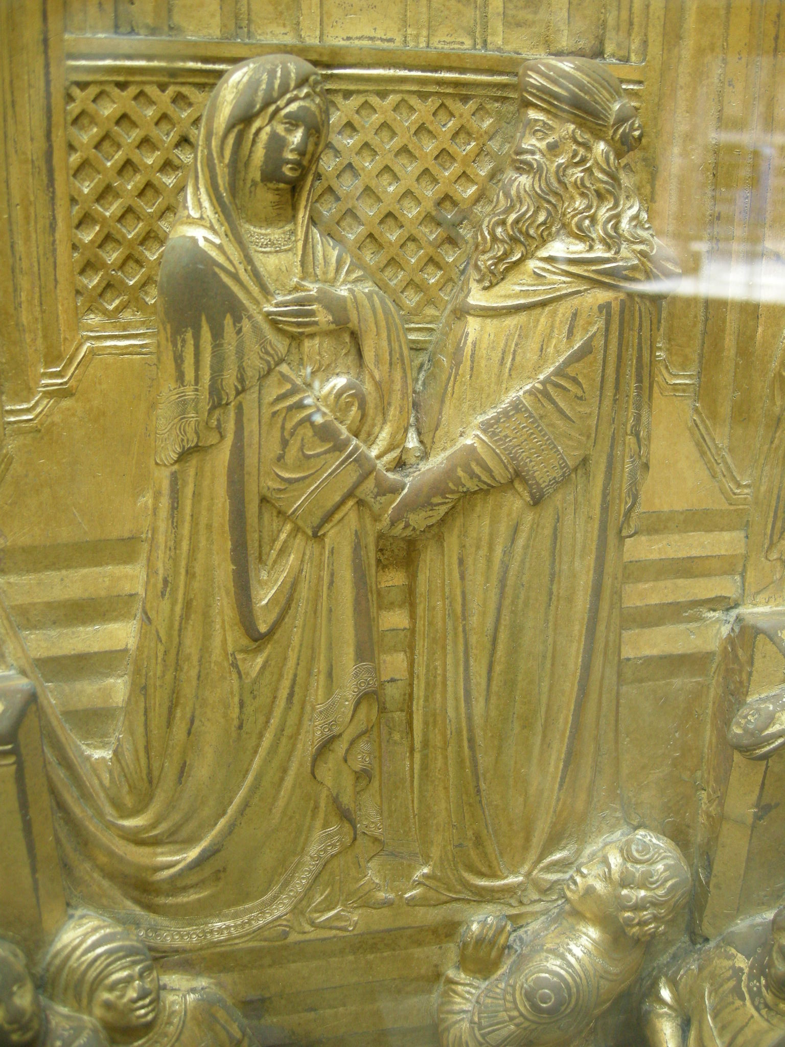 Solomon and the Queen of Sheba (Gates of Paradise)